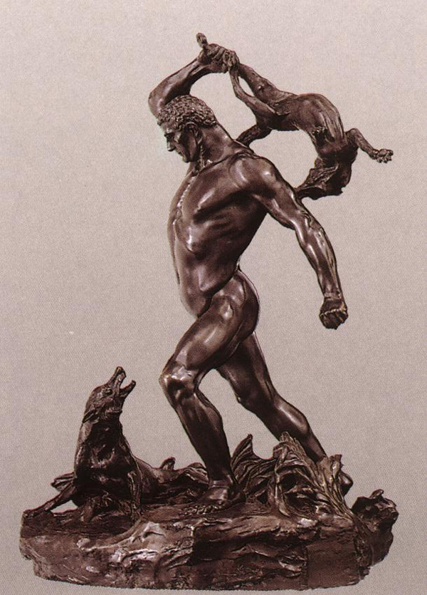 Hungarian Medieval Knight Miklós (Nicholas) Toldi fighting wolves in the forest. Sculpture of János Fadrusz (1903).